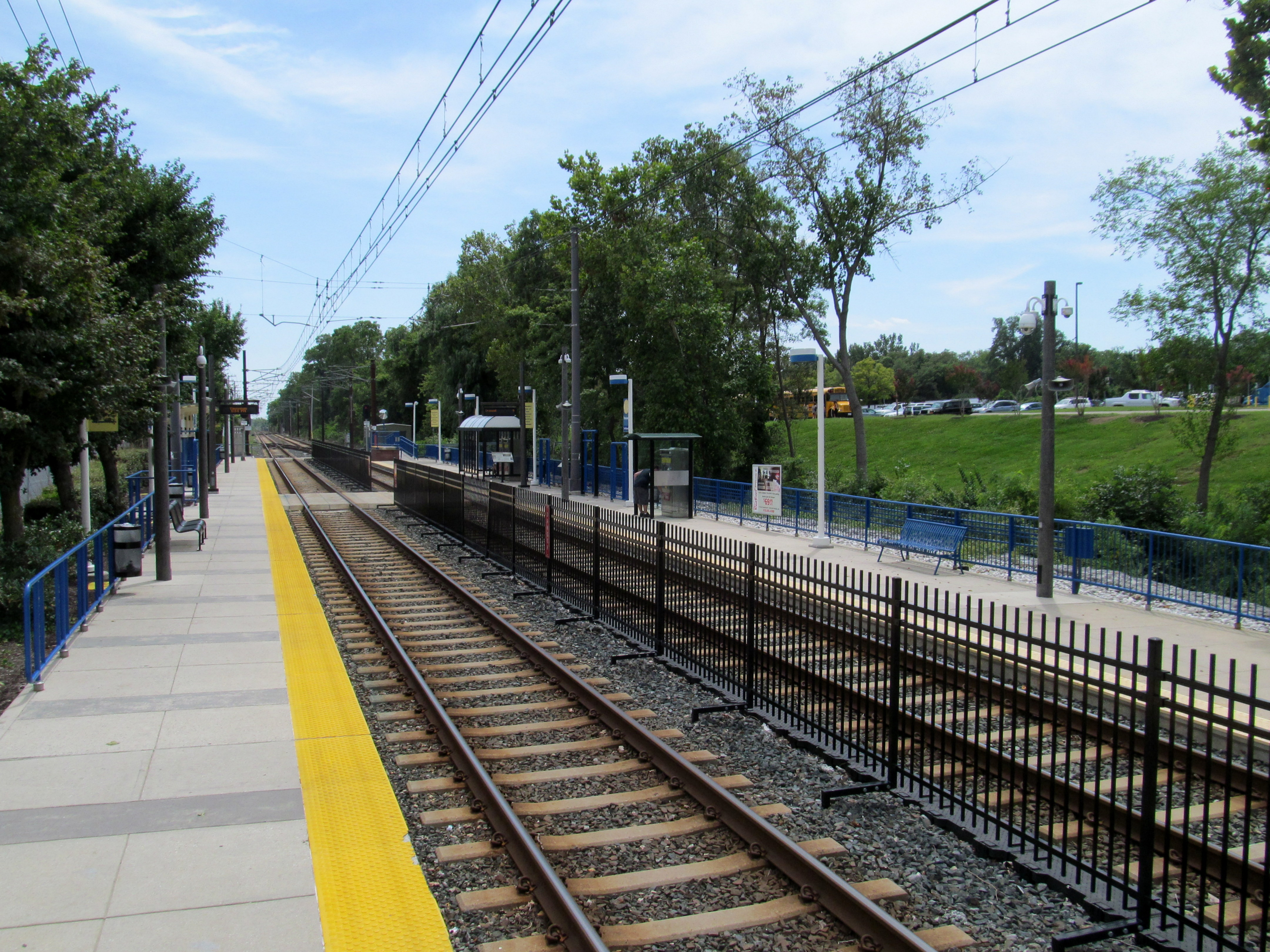 Timonium Fairgrounds station in August 2014, serving the Maryland State Fair, Timonium, Maryland